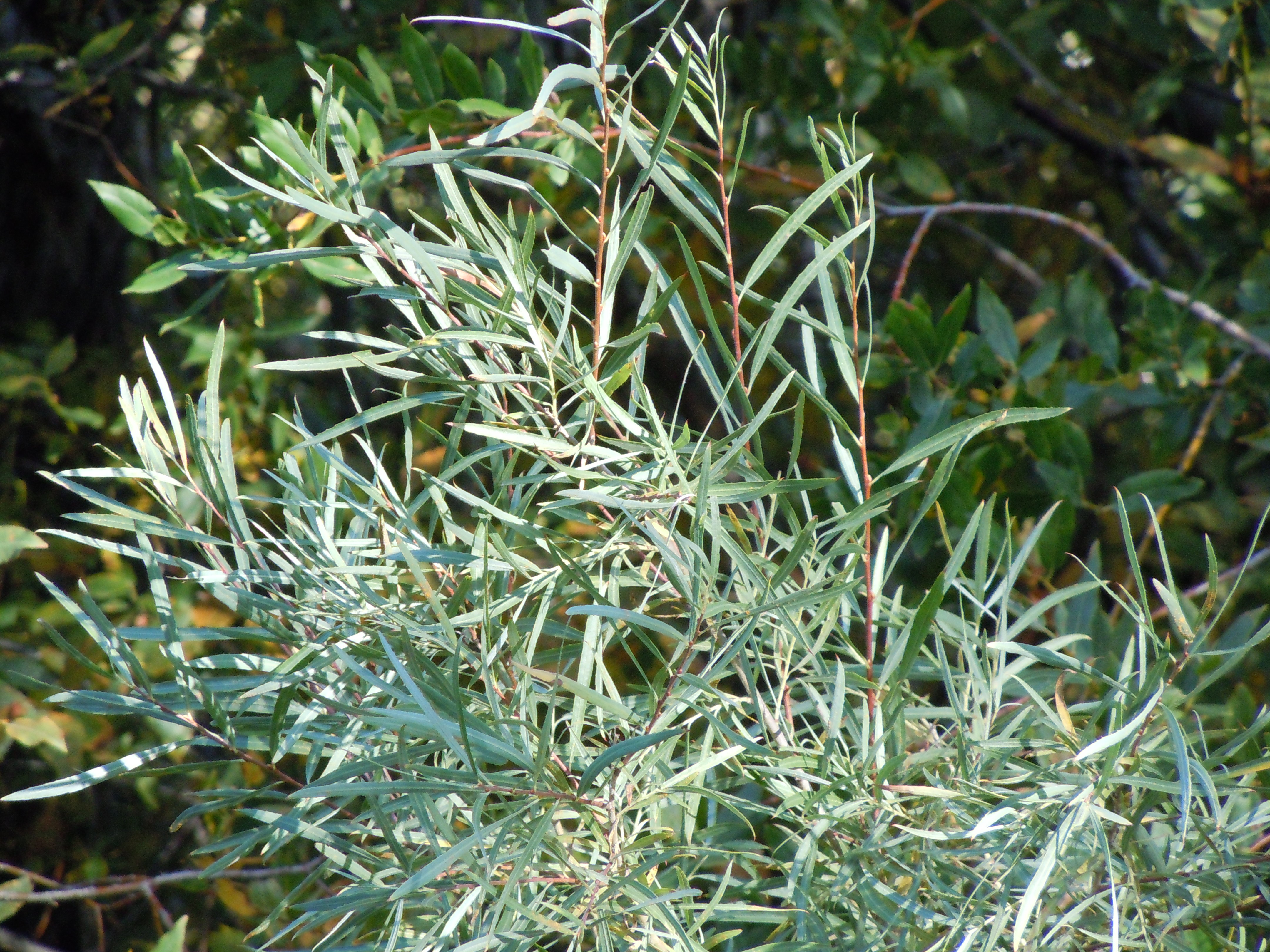 The linear leaves are finely grayish hairy and the upper and lower leaf surfaces are similar in gray green coloration.